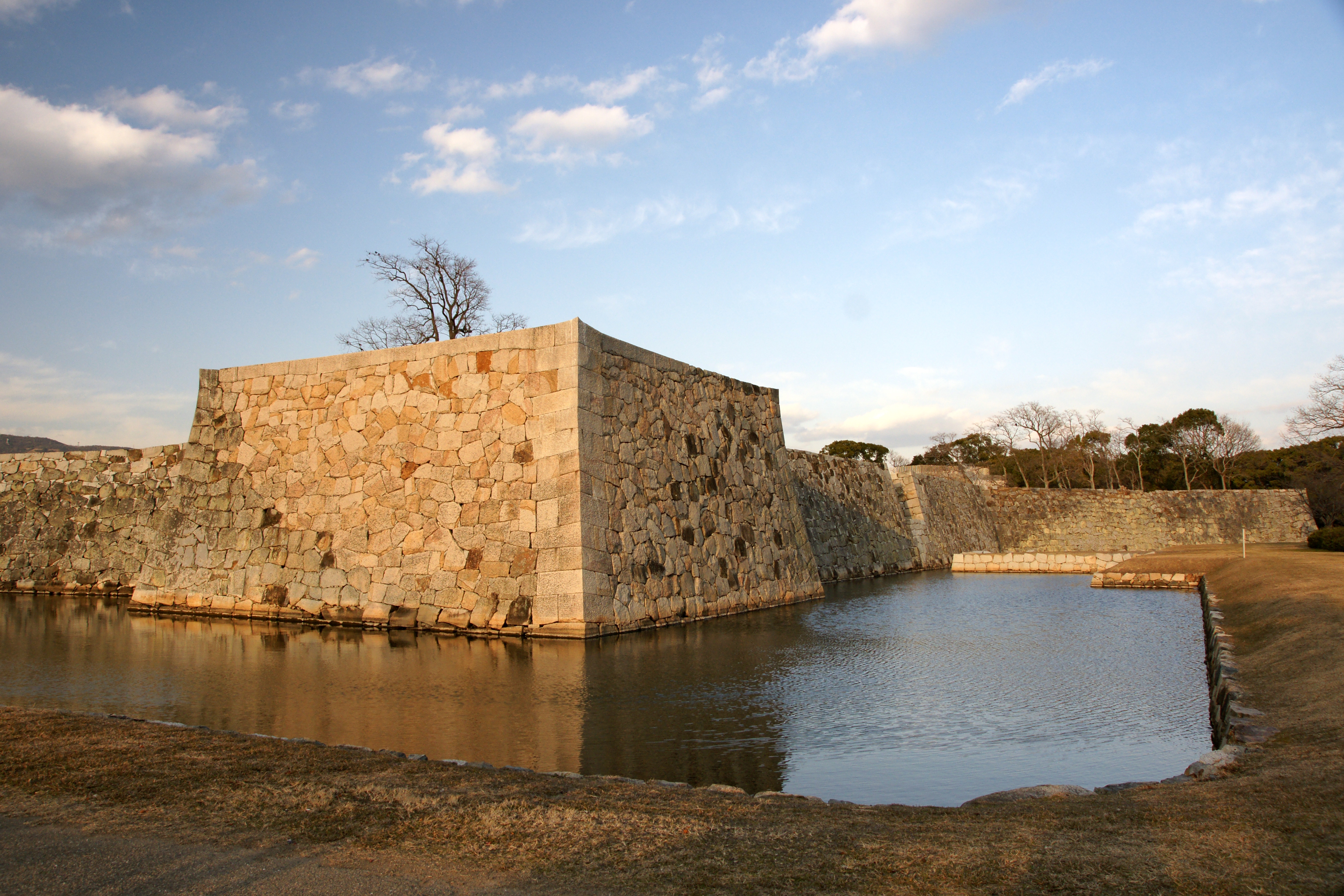 Ako Castle in Akō, Hyogo prefecture, Japan